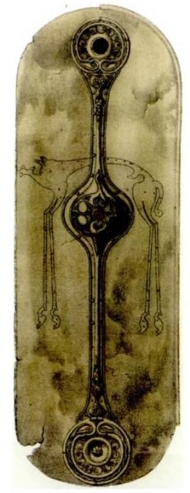 Drawing of the Witham shield, clearly showing the long-legged boar which is now difficult to make out.